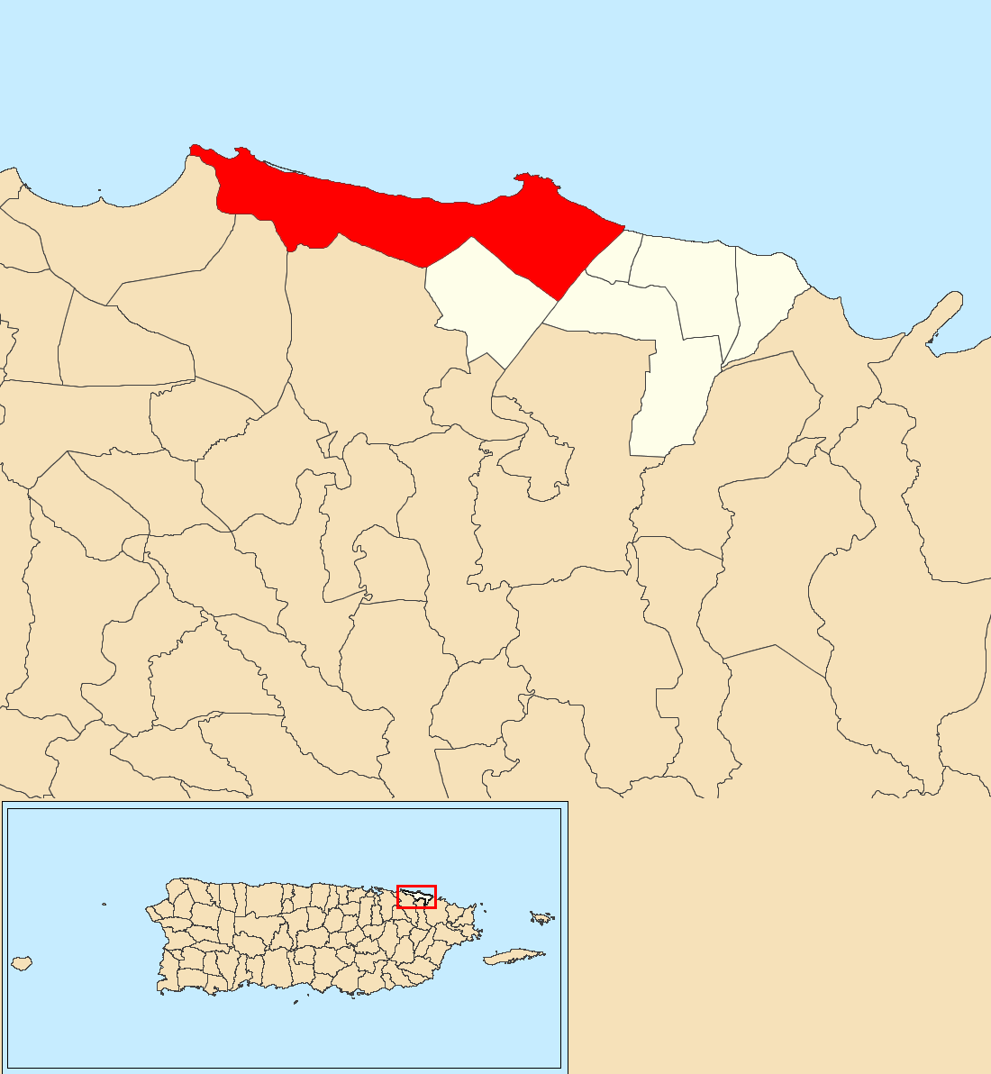 Torrecilla Baja, Loíza, Puerto Rico locator map